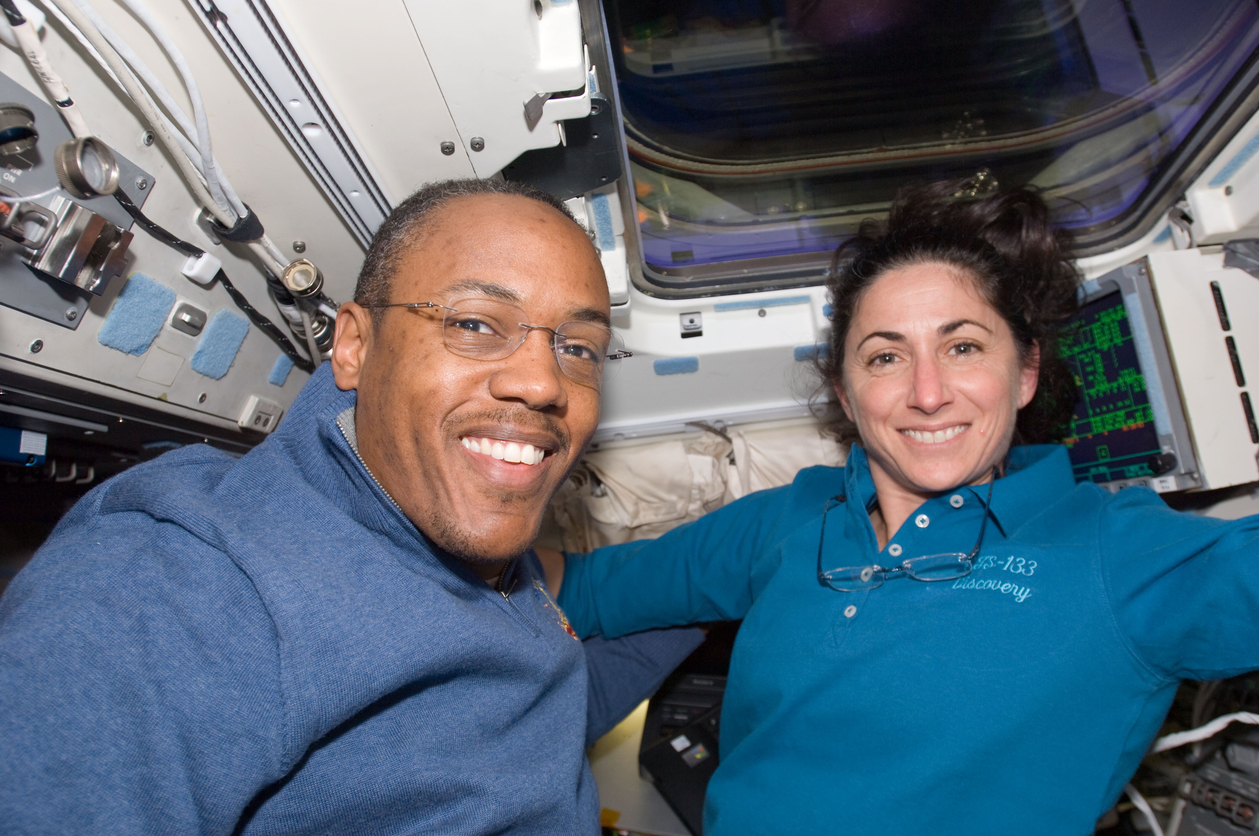 Astronauts Alvin Drew and Nicole Stott, both STS-133 mission specialists, take a break from flight day 2 duties on Discovery's aft flight deck as the shuttle makes its way toward a weekend docking with the International Space Station.